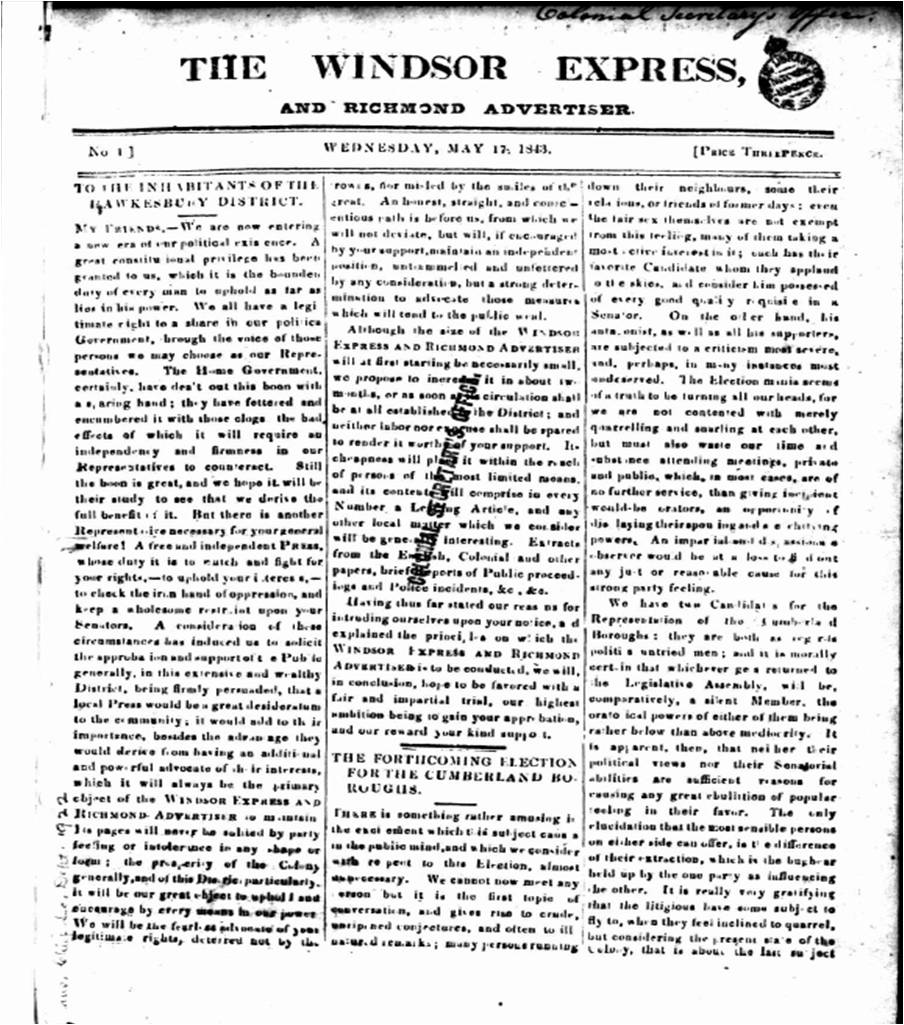 Coverpage of a historic newspaper from New South Wales, Australia.